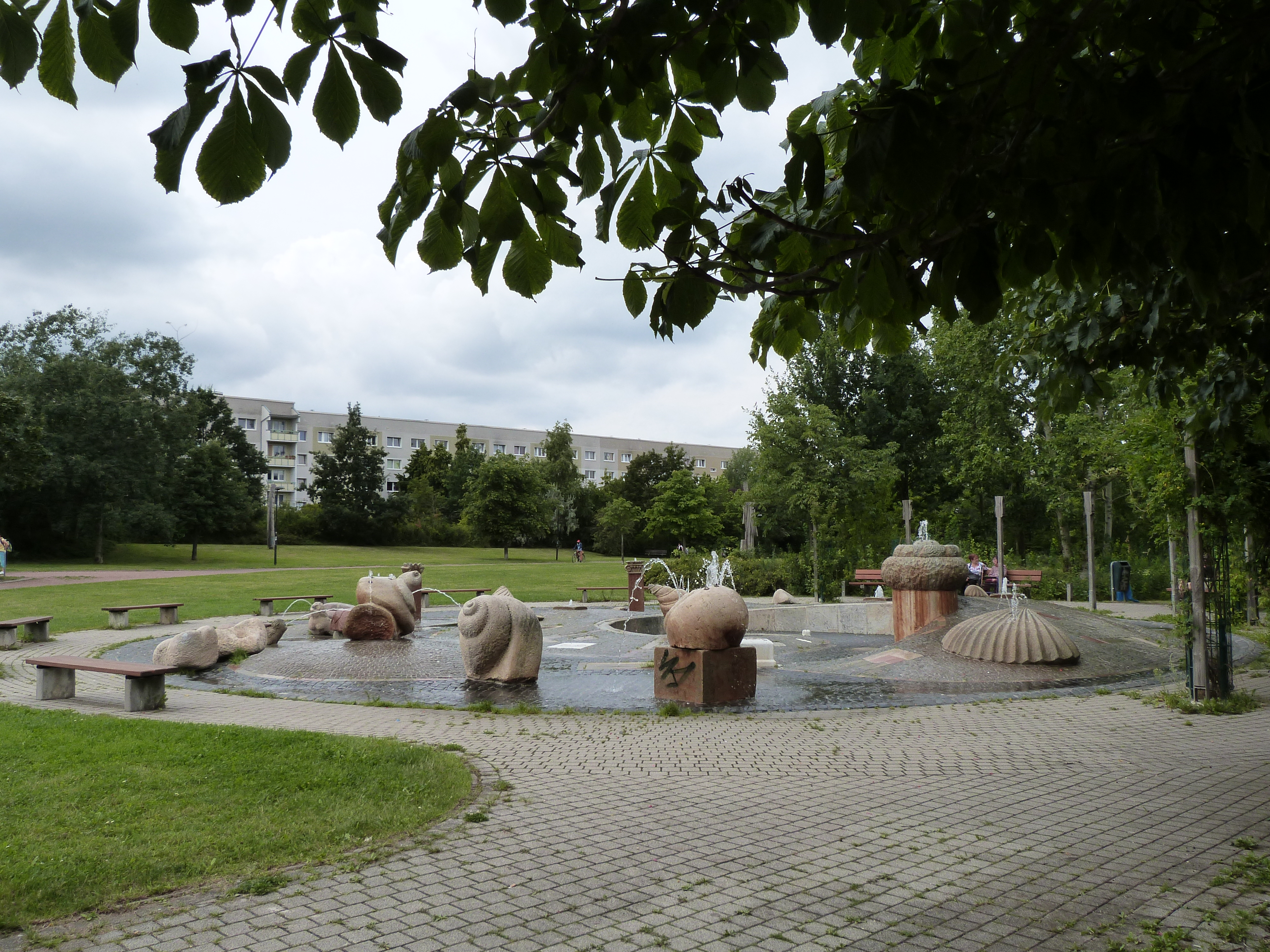 Water playground Früchte des Meeres (fruits of the sea), sculptor: Michael Weihe, Silberhöhe, Halle (Saale)